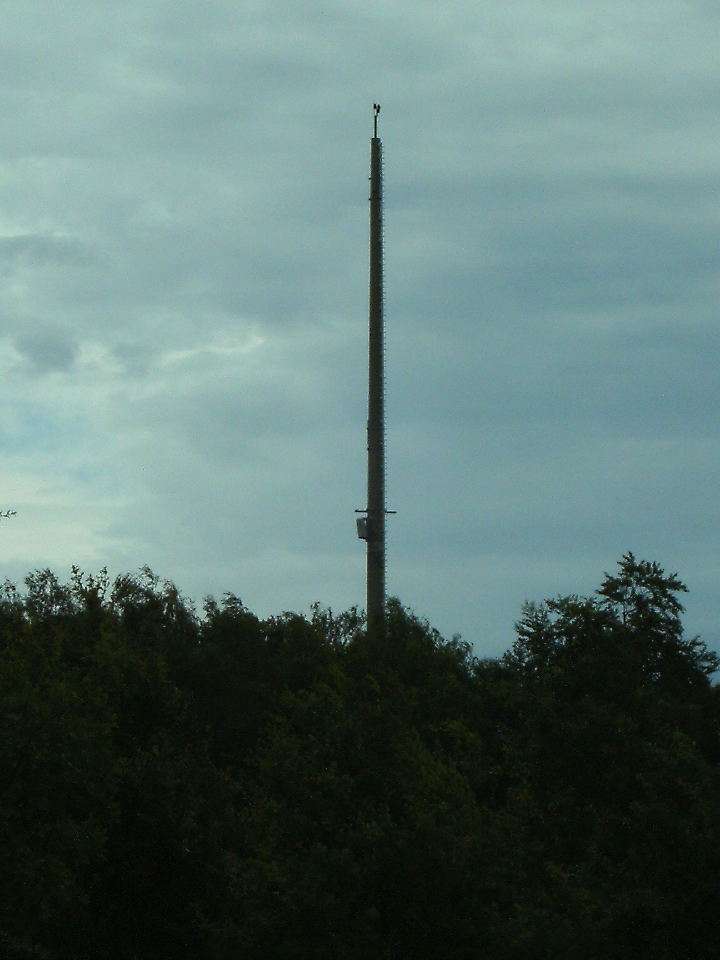 Radio mast of prefabricated concrete at Patch Barracks, Stuttgart